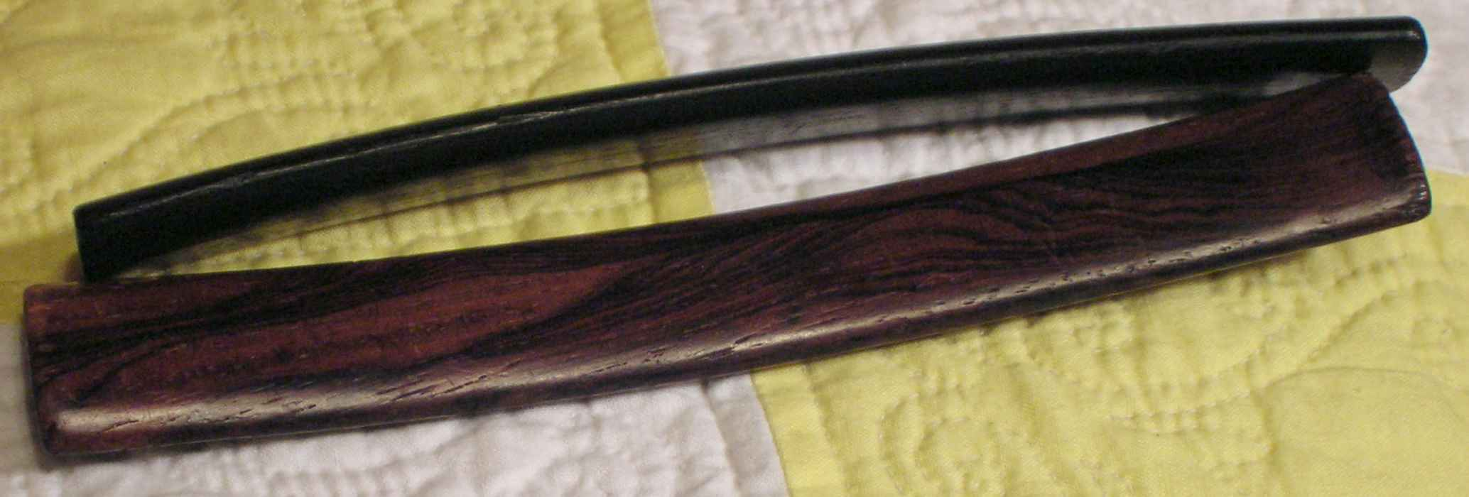 Musical bones, possibly rosewood, length 7 inches. Found in an estate sale in Bellingham, Massachusetts circa 1990.